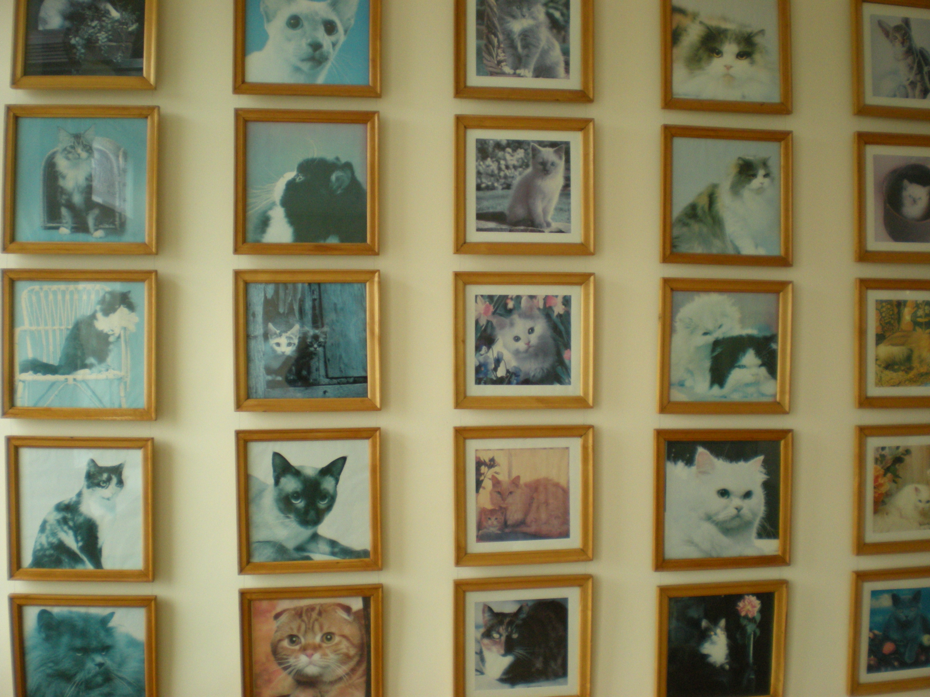 Katinų muziejuje